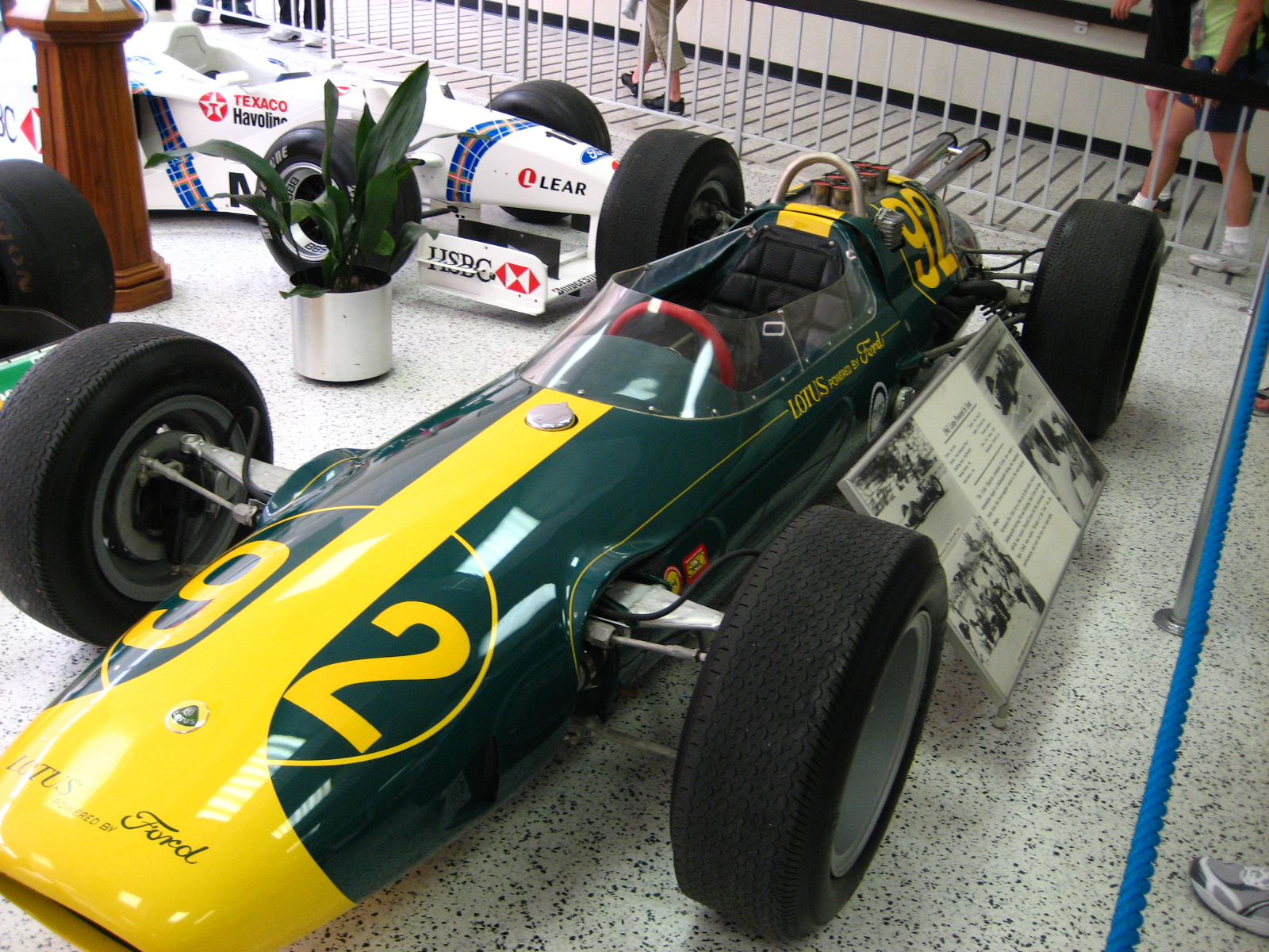 Jim Clark's Lotus 29 at the Indianapolis Motor Speedway Hall of Fame Museum